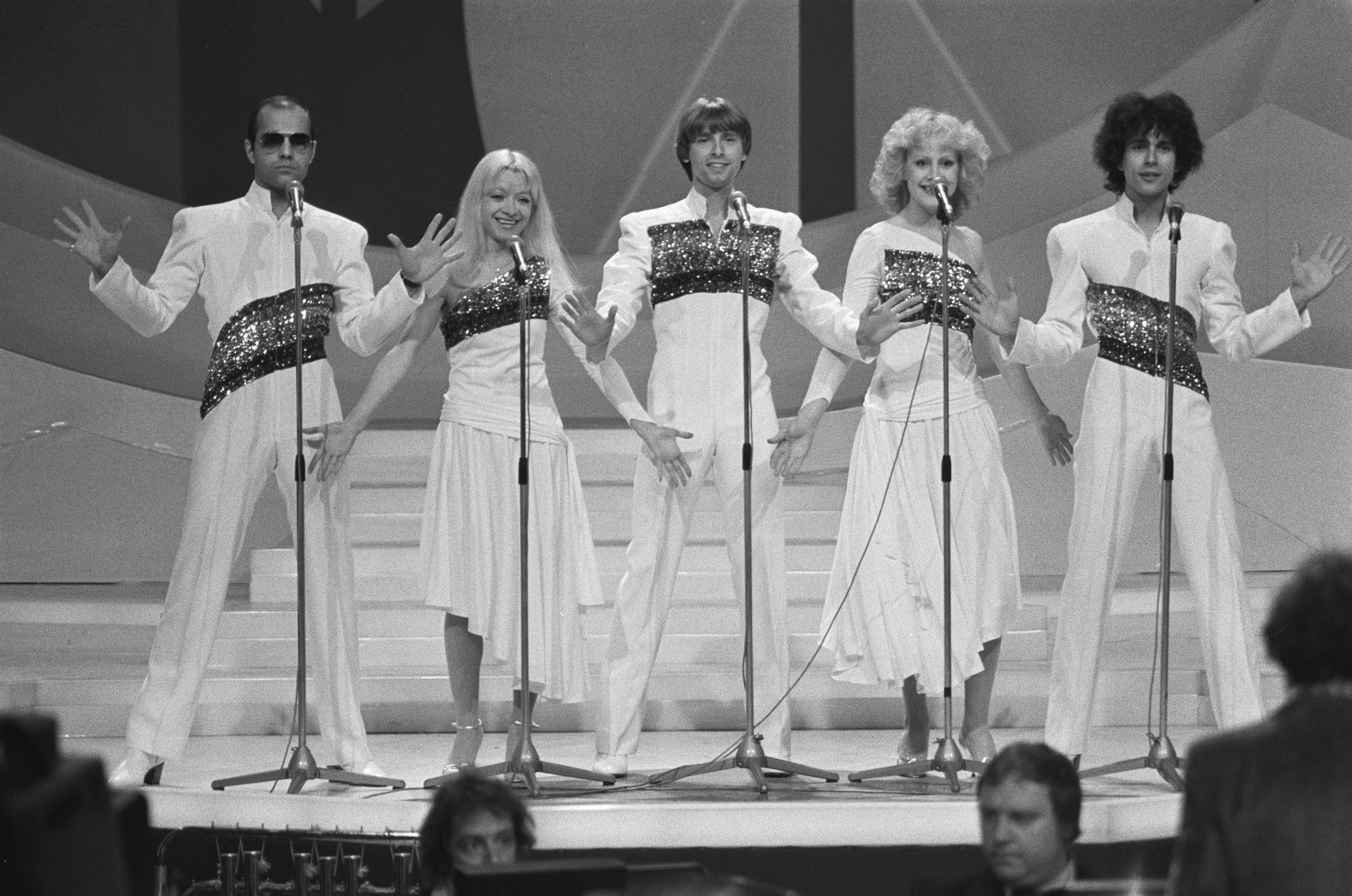 Profil during rehearsals for the Eurovision Song Contest 1980